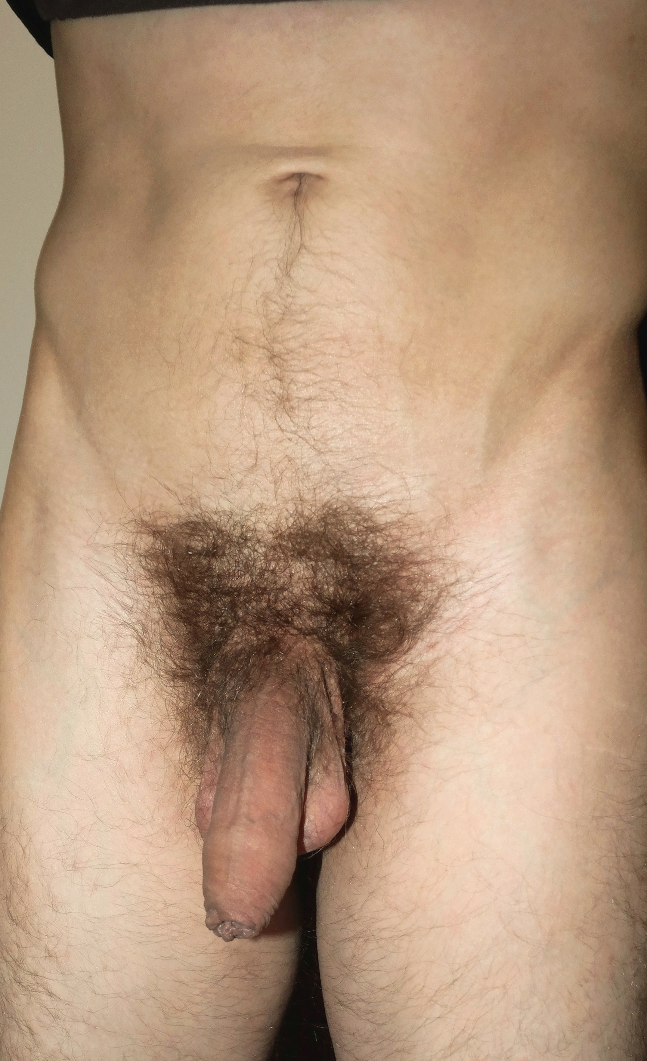 Male body area with pubic hair, naturally grown (not trimmed). Southern-European male, 33 years. Read my comments here: 123GLGL